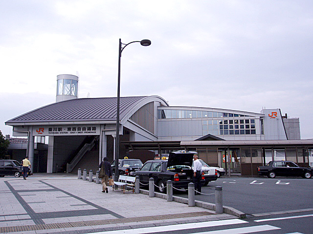 Central Japan Railway Iida Line Toyokawa Station Building 東海旅客鉄道 飯田線 豊川駅 駅舎